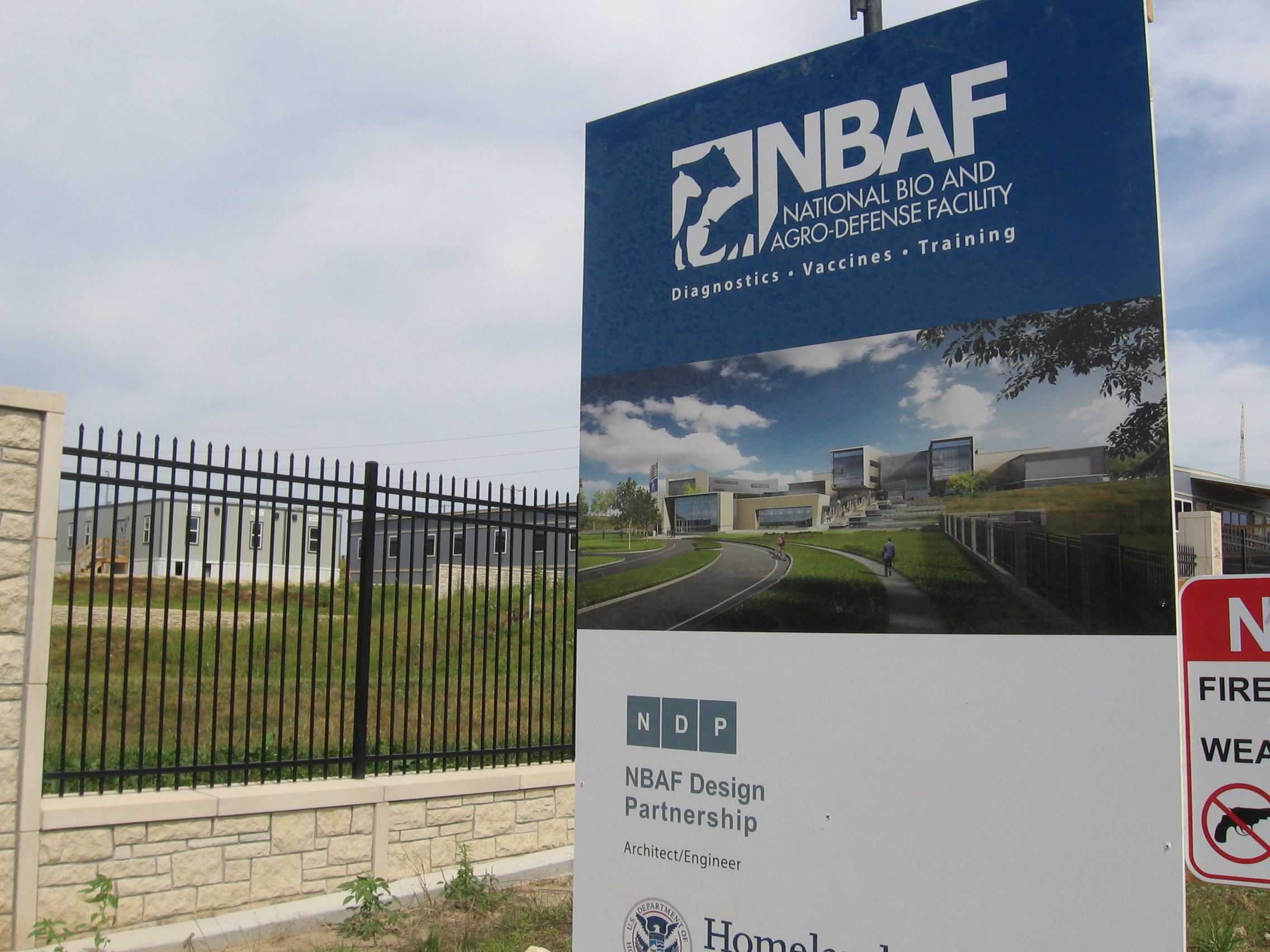 NBAF construction sign in Manhattan, Kansas